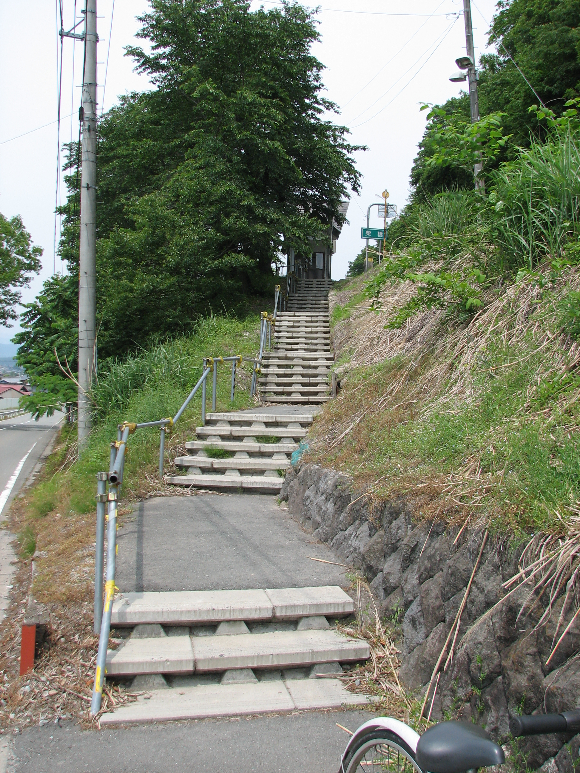 Stairway to Shibahashi station 柴橋駅前の階段